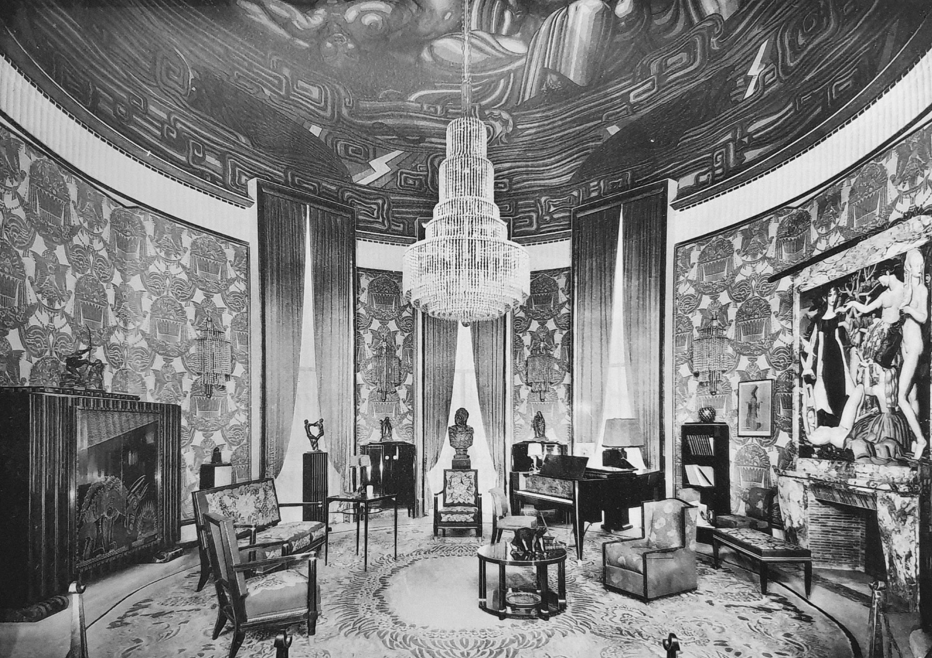 The Salon of the Hotel du Collectionneur at the 1925 Paris International Exposition of Decoratiive Arts, designed by Emile Jacques Ruhlmann (1879-1933]